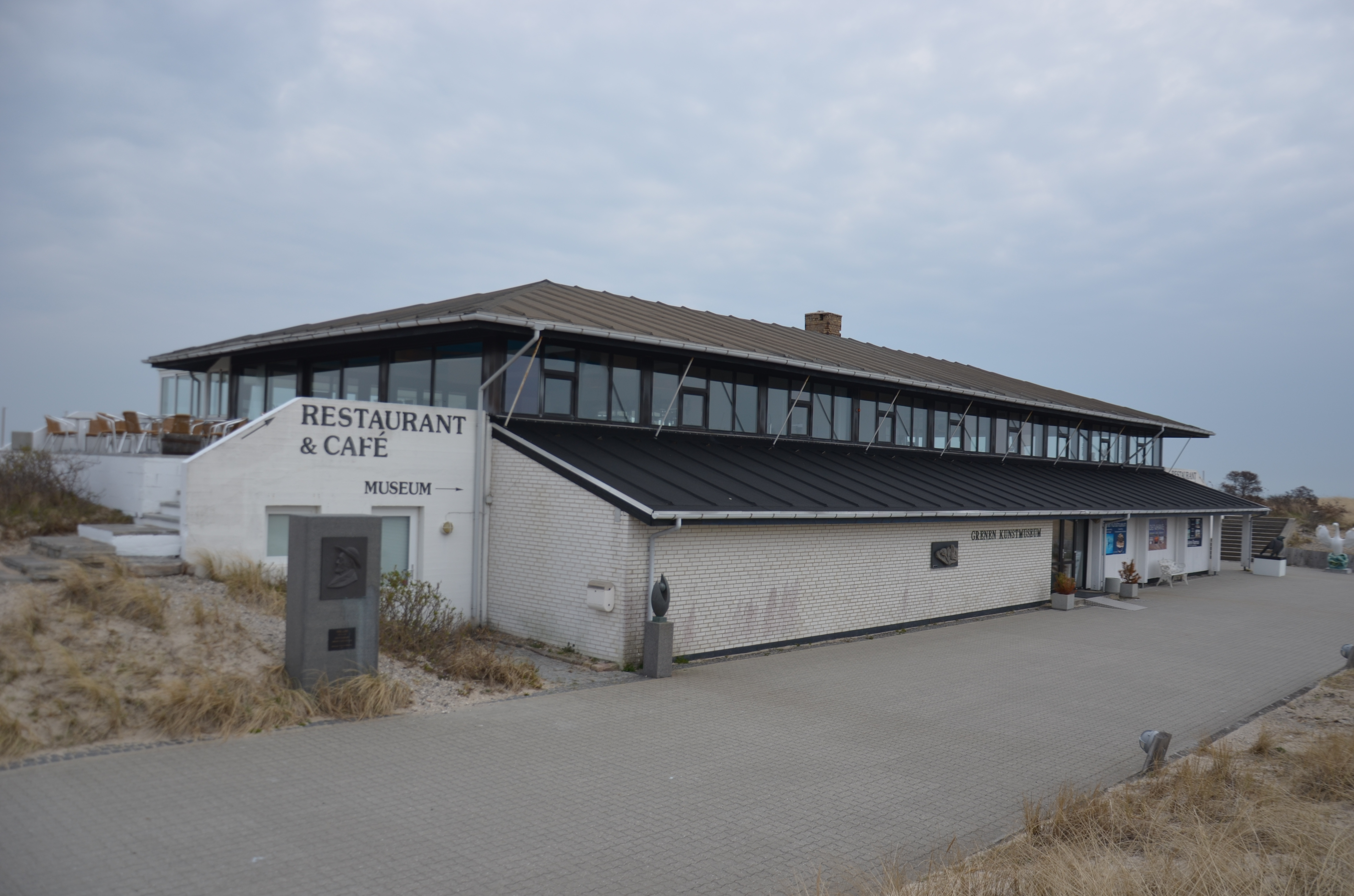 Grenen Kunstmuseum, Skagen